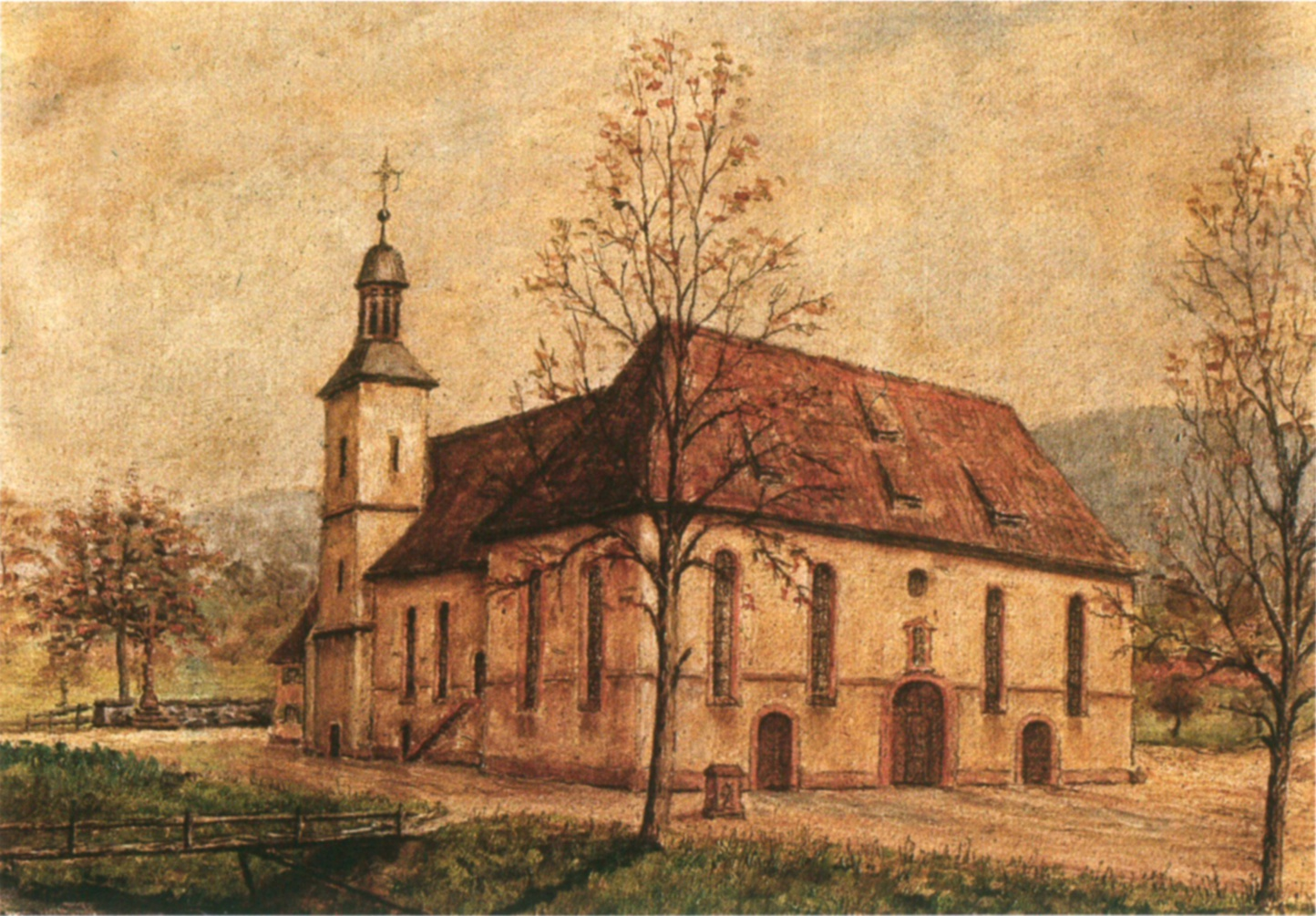 Pilgrimage church Maria zu den Ketten in Zell am Harmersbach, Baden-Württemberg, Germany, as before 1910